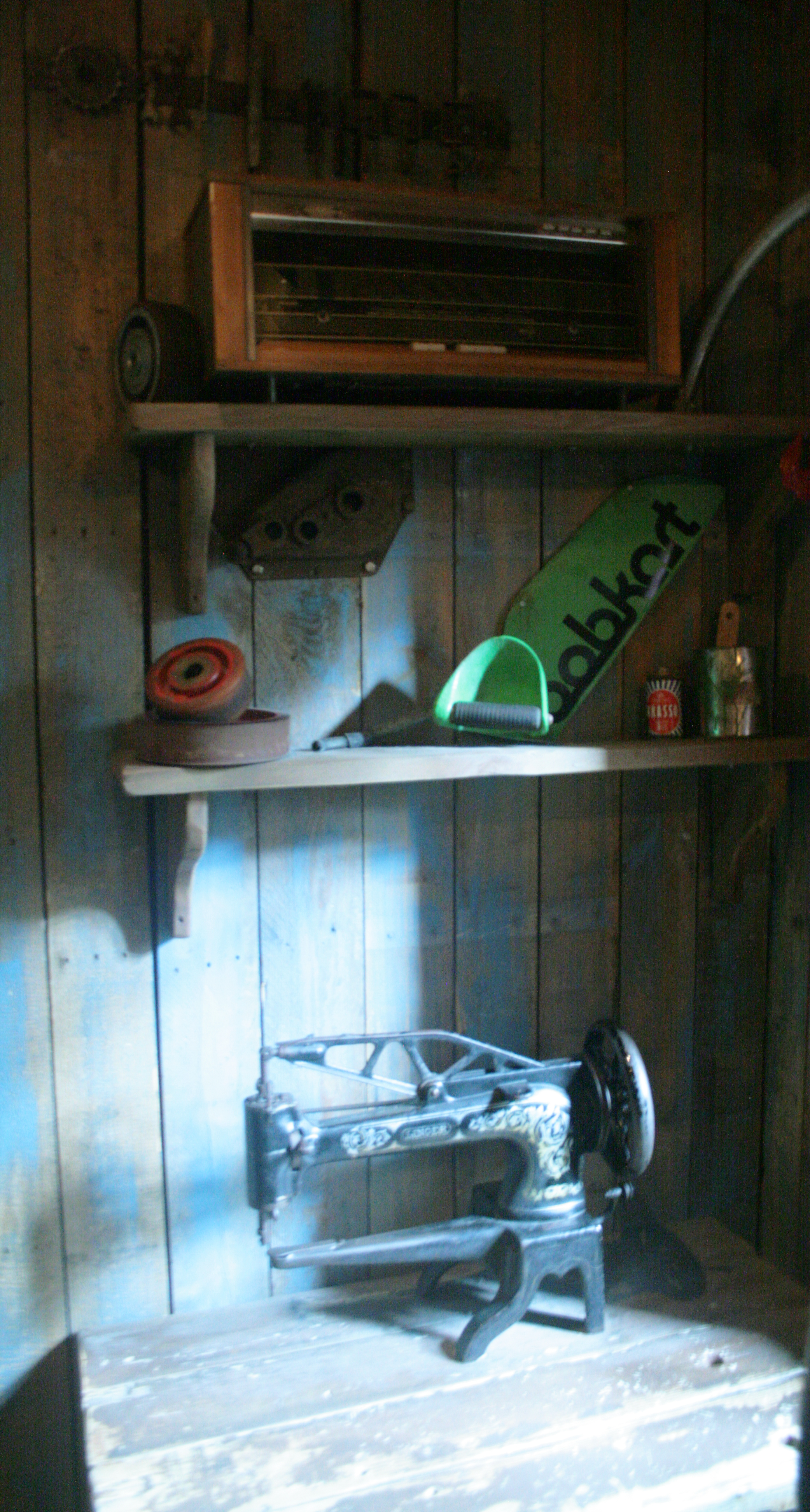 Maximus' Blitz Bahn at amusements park Toverland.